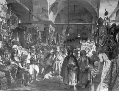 Drawings of the bazaar in Constantinopole